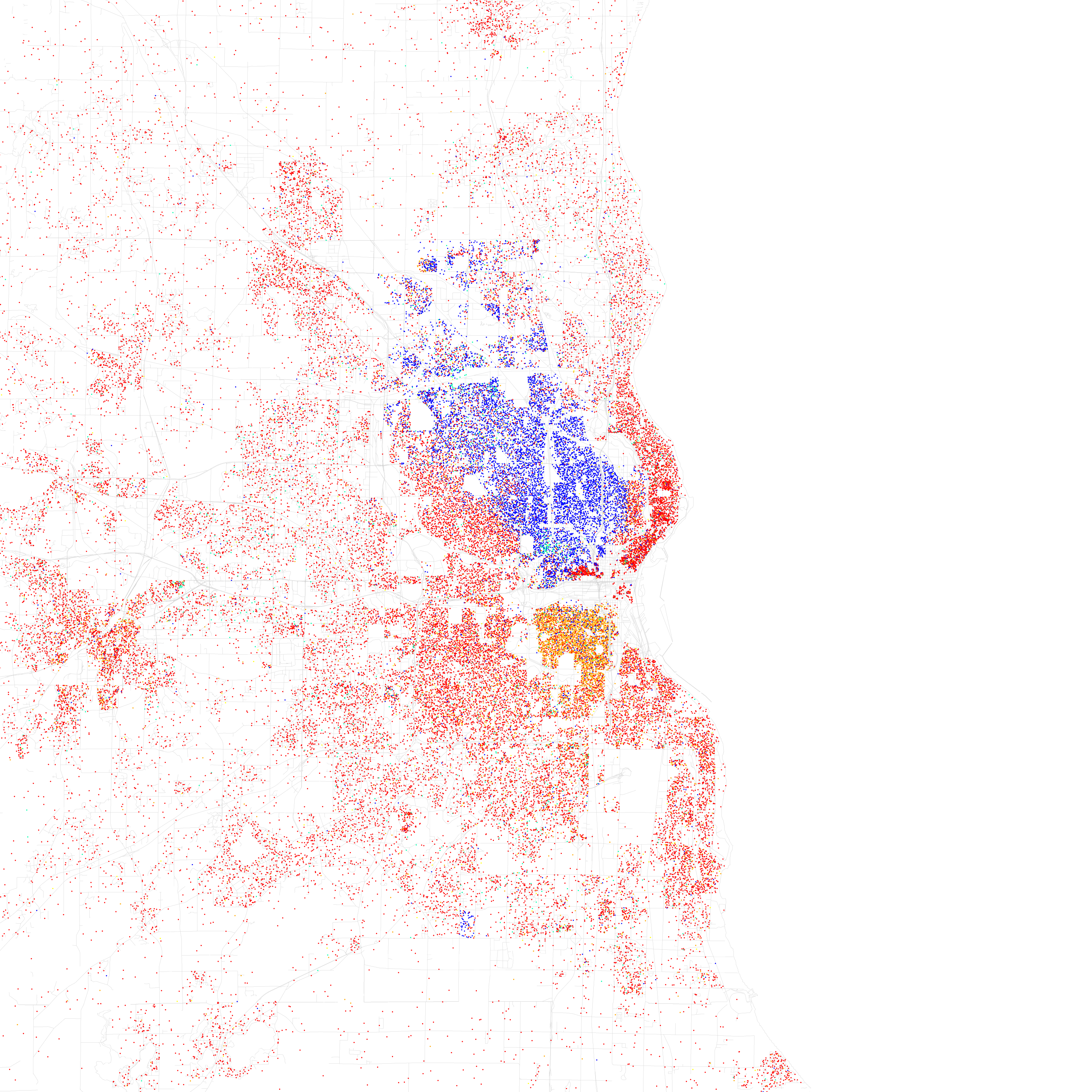 Maps of racial and ethnic divisions in US cities, inspired by Bill Rankin's map of Chicago, updated for Census 2010. Red is White, Blue is Black, Green is Asian, Orange is Hispanic, Yellow is Other, and each dot is 25 residents. Data from Census 2010. Base map © OpenStreetMap, CC-BY-SA